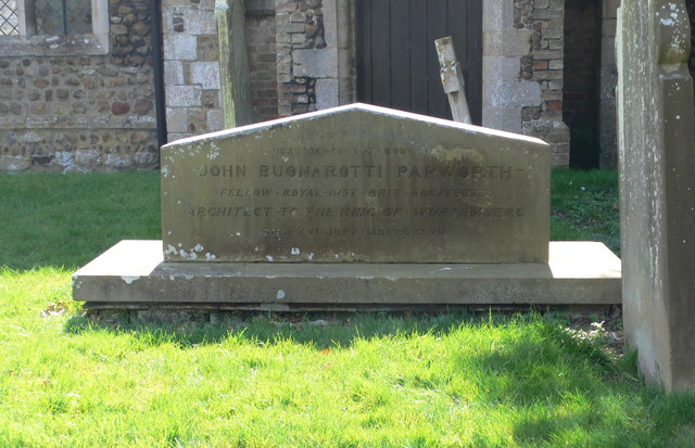 Tomb of the architect and artist John Buonarotti Papworth (1775–1847) in St James's parish churchyard, High Street, Little Paxton, Cambridgeshire (formerly Huntingdonshire). The inscription says he was architect to the King of Württemberg.